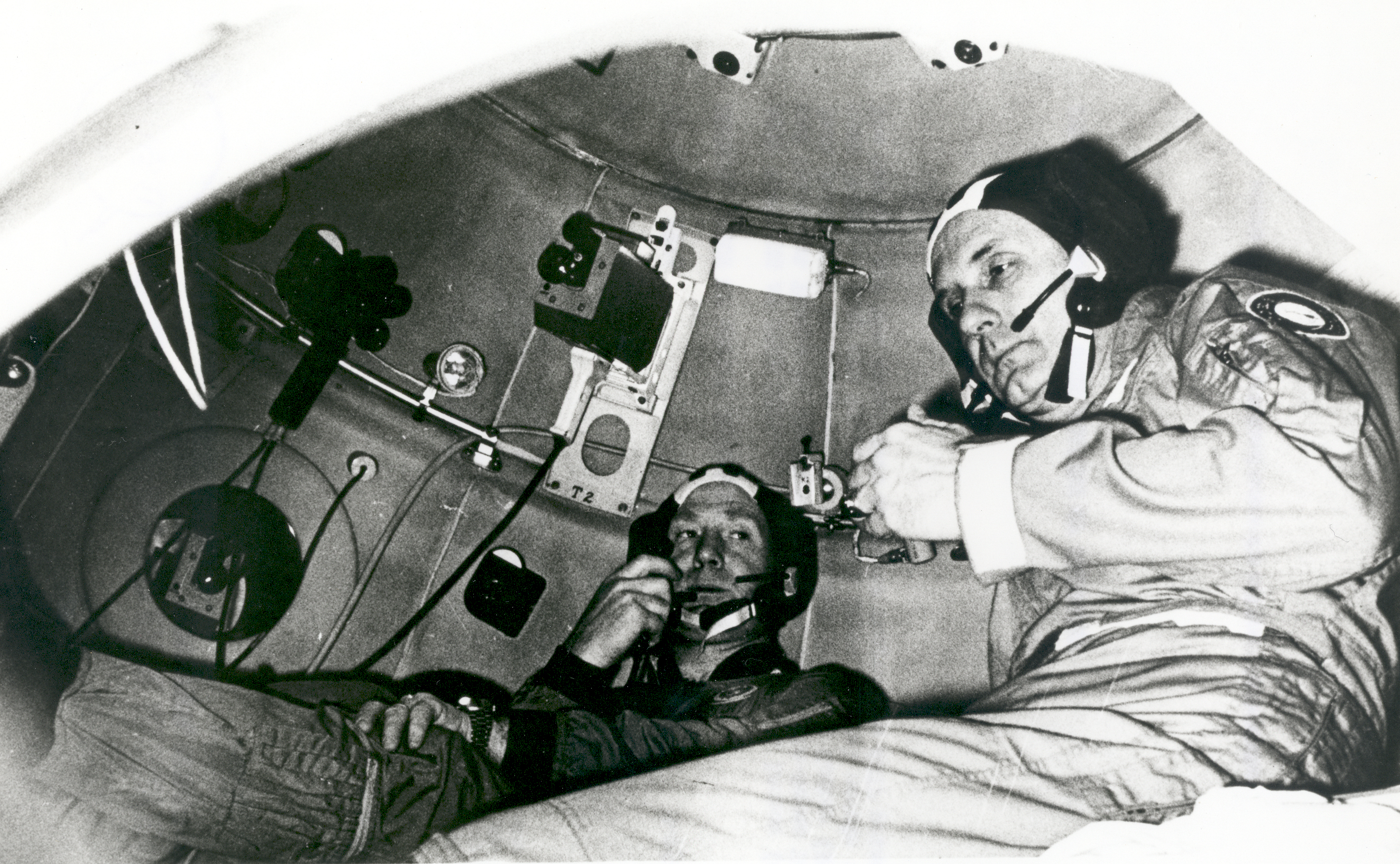 Cosmonaut Aleksey A. Leonov (left) and astronaut Thomas P. Stafford take part in Apollo-Soyuz Test Project (ASTP) joint crew training at the Cosmonaut Training Center (Star City) near Moscow. They are inside a Soviet Soyuz orbital module trainer. The two men were the commanders of their respective ASTP prime crews. ASTP was a cooperative space mission between the United States and the USSR. The goals of ASTP were to test the ability of American and Soviet spacecraft to rendezvous and dock in space and to open the doors to possible international rescue missions and future collaboration on manned spaceflights. The Soyuz and Apollo crafts launched from Baikonur and the Kennedy Space Center respectively, on July 15, 1975. The two spacecraft successfully completed the rendezvous and docking on July 17th. While the Soyuz craft returned to Earth on July 21st, the Apollo craft stayed in space another 3 days, landing on July 24th in the Pacific Ocean. ASTP was a success, as not only did crews accomplish the rendezvous and docking, but they also performed in-flight intervehicular crew transfers and various scientific experiments. ASTP proved to be significant step toward improving international cooperation in space during the Cold War.